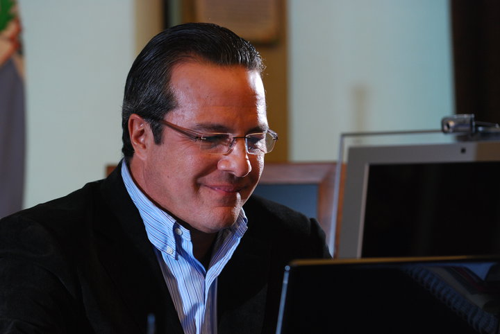 Jimmy Jairala